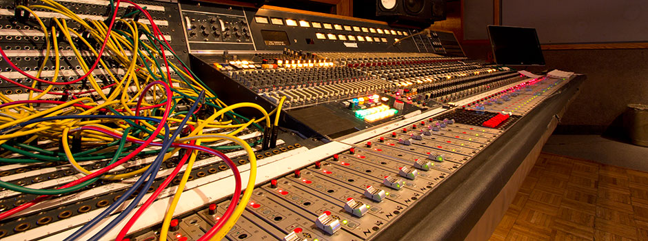 Hyde Street Studios' Neve 8038 Console is a recording console housed at Hyde Street Studios at 245 Hyde Street.